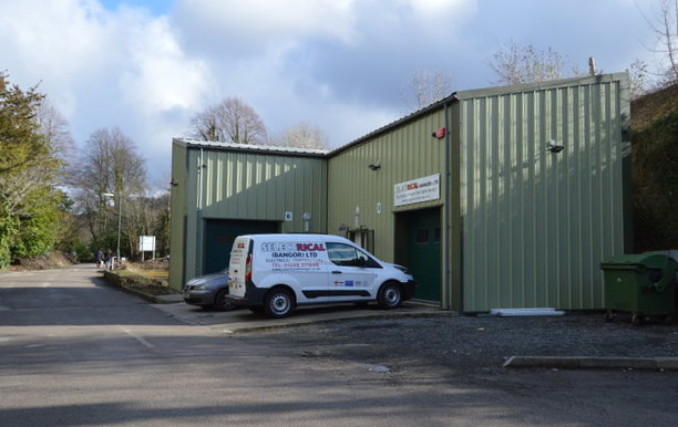 Selectrical, Treborth Business Park